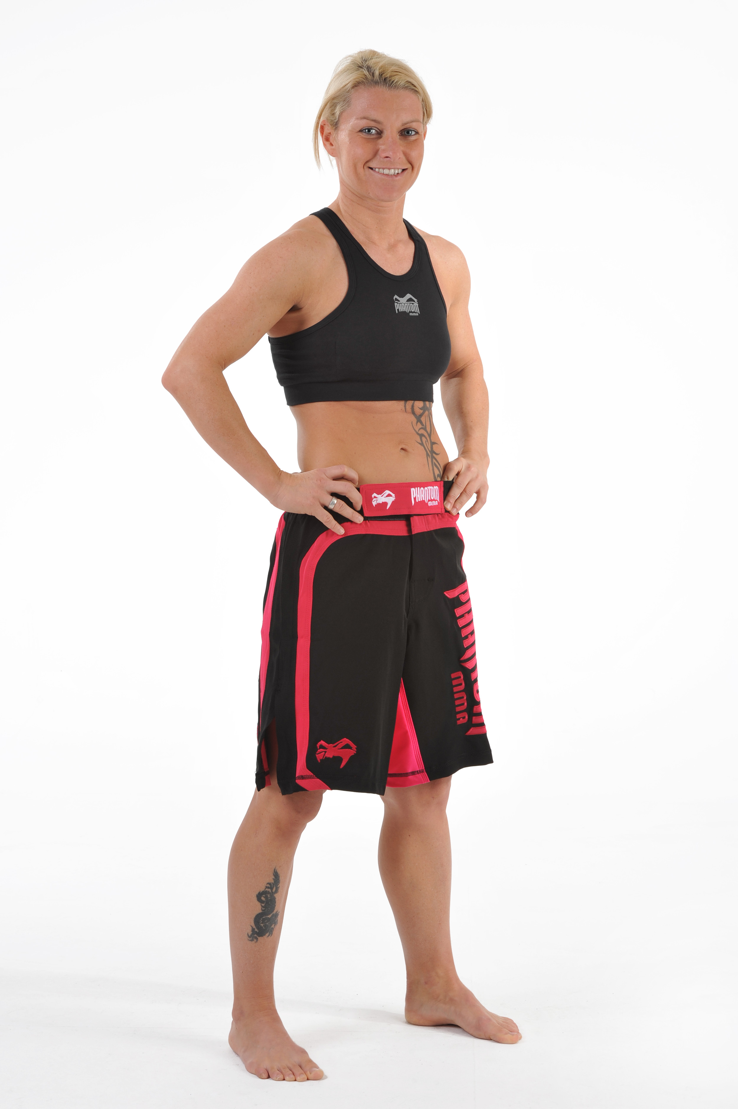 Austrian MMA Fighter